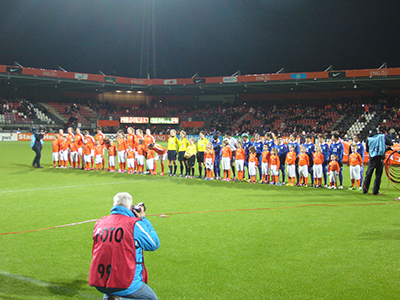 Netherlands vs Thailand, February 2015